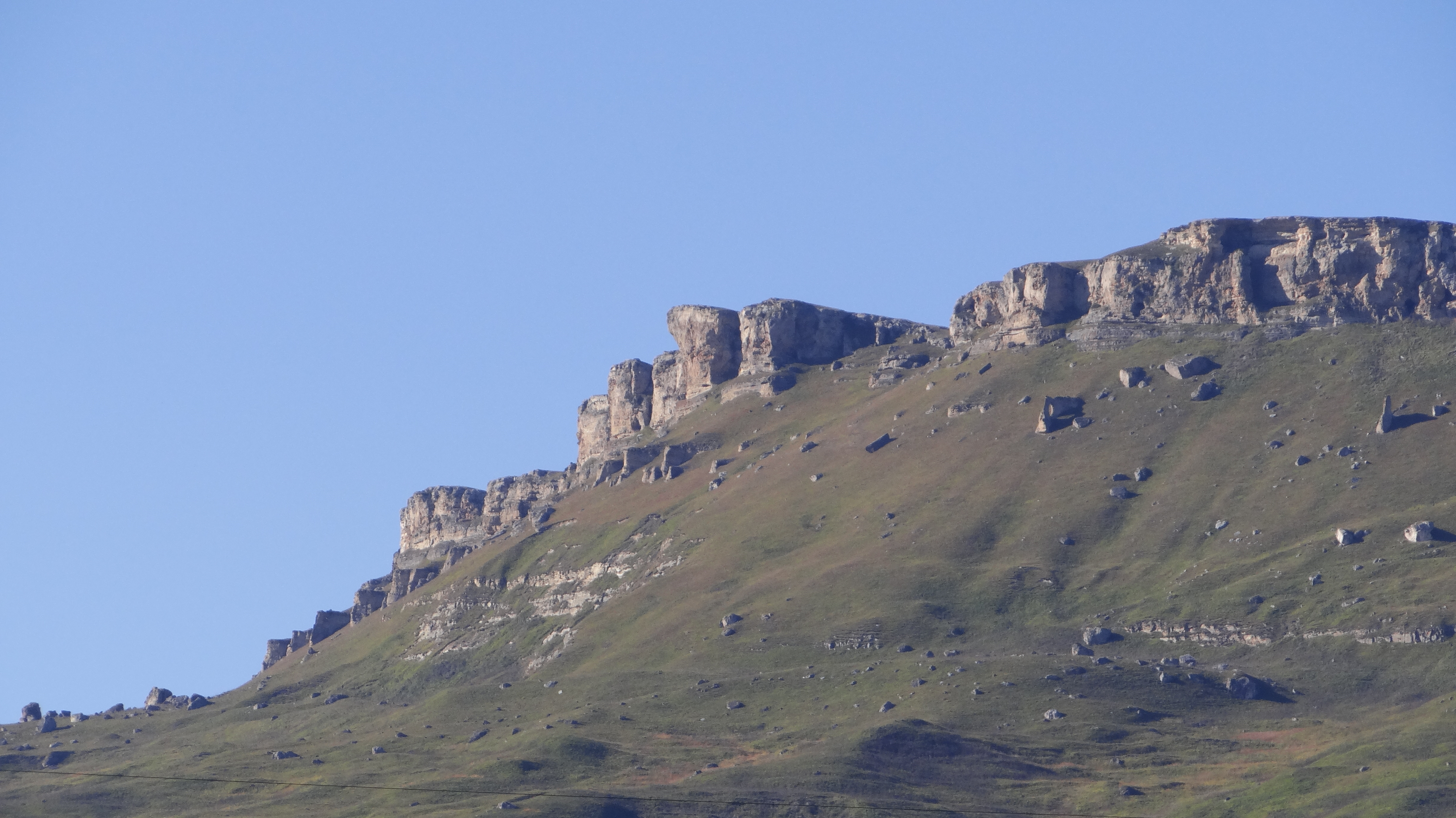 Zelenchuksky District, Karachay-Cherkessia, Russia